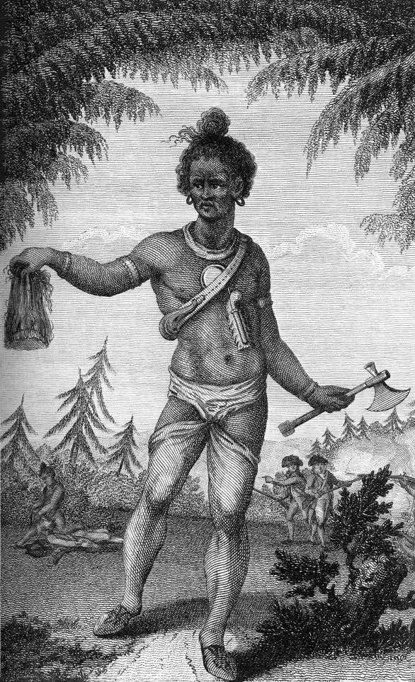 Indian Warrior with Scalp by Barlow, a 1789 engraving published by William Lane, London, England. Courtesy of the Library of Congress, Washington, DC.